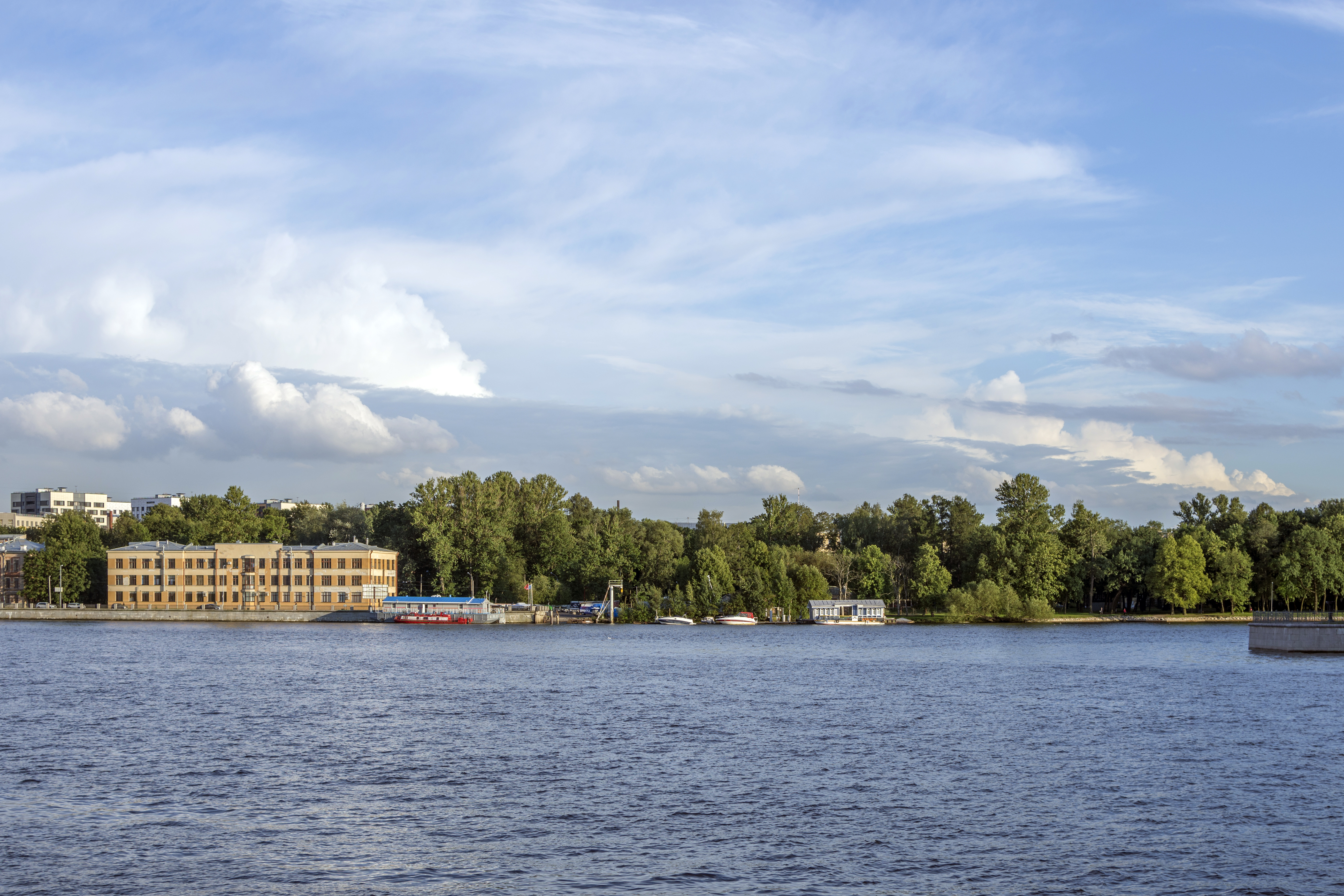 Lopukhinsky Garden in Saint Petersburg, as seen from Ushakovskaya Embankment